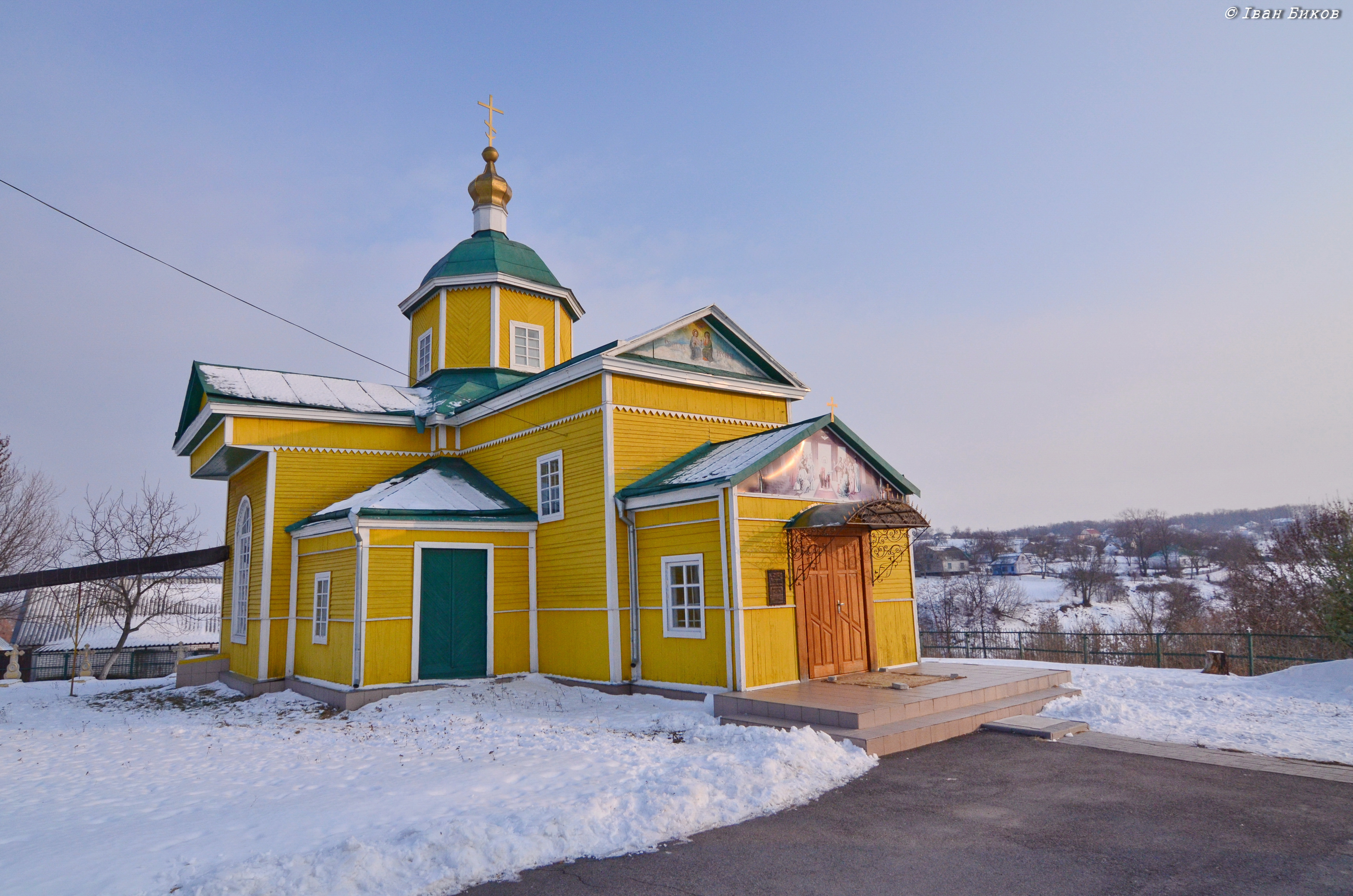 Church of the Holy Spirit in Shkarivka. Built in 1756, rebuilt in 1849